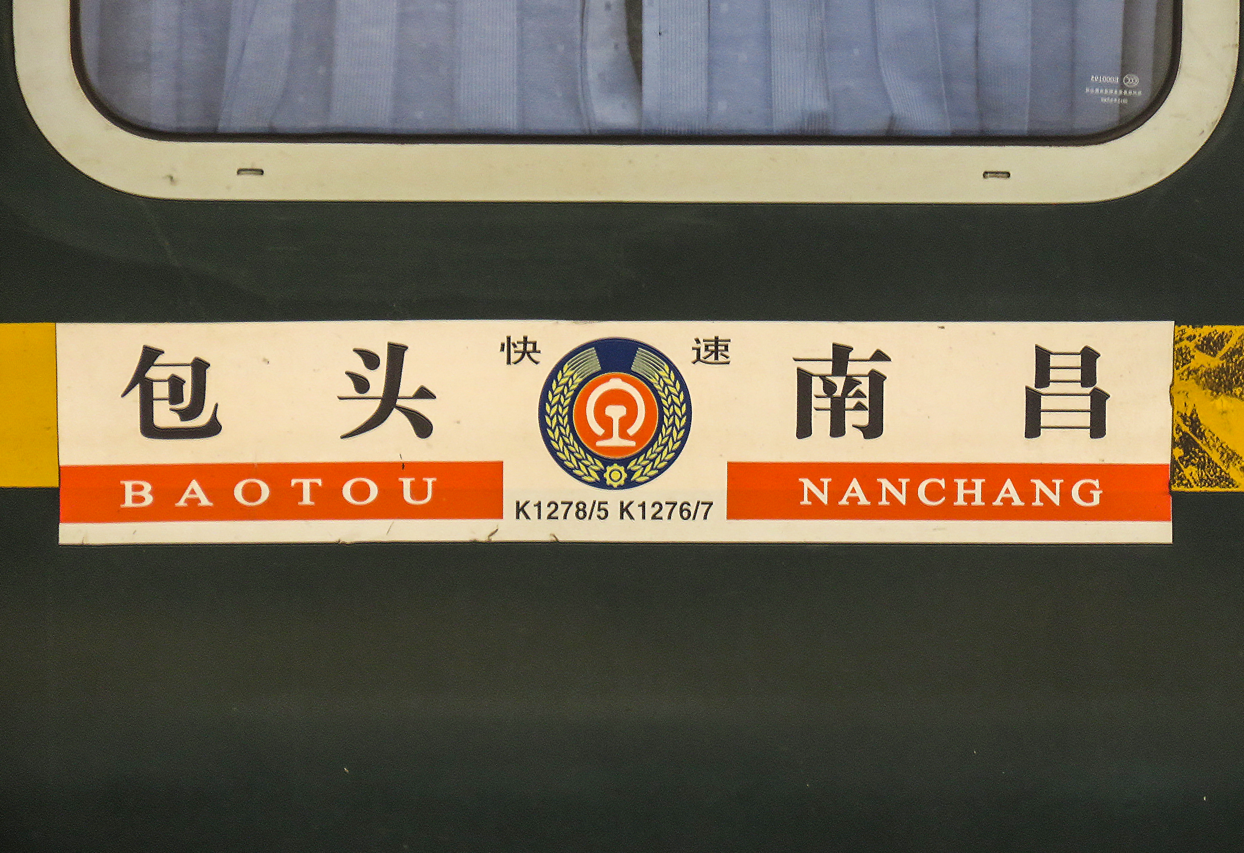 I wonder how many passengers would board K1278 at Sanjiadian...